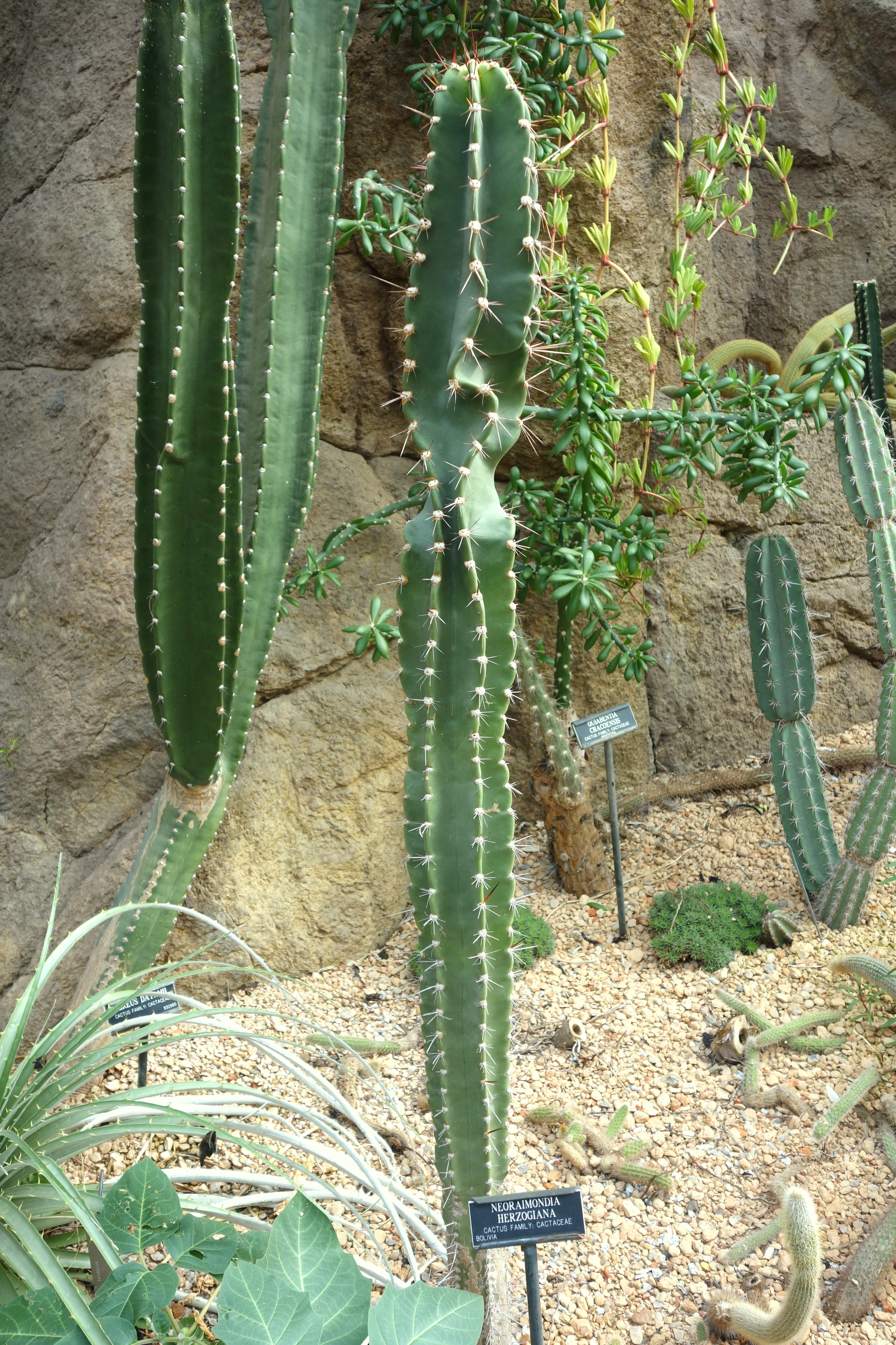 Botanical specimen in the Brooklyn Botanic Garden, Brooklyn, New York, USA.